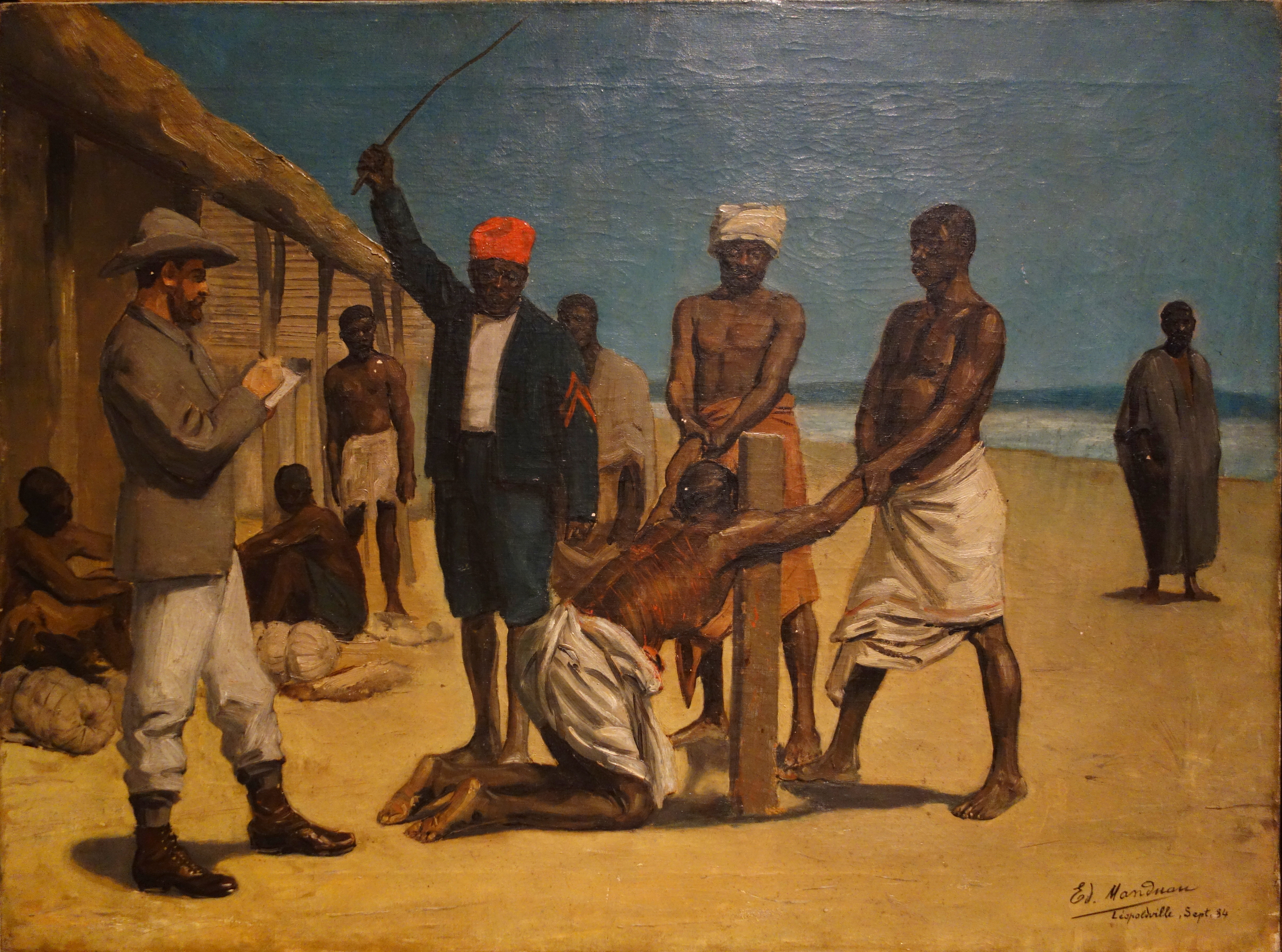 Exhibit in the Royal Museum for Central Africa, Tervuren, Belgium. This object is old enough so that it is in the public domain.